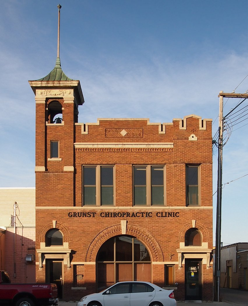 Former Wadena Fire & City Hall, 10 SE Bryant Ave, Wadena, Minnesota, USA. Viewed from the southwest.